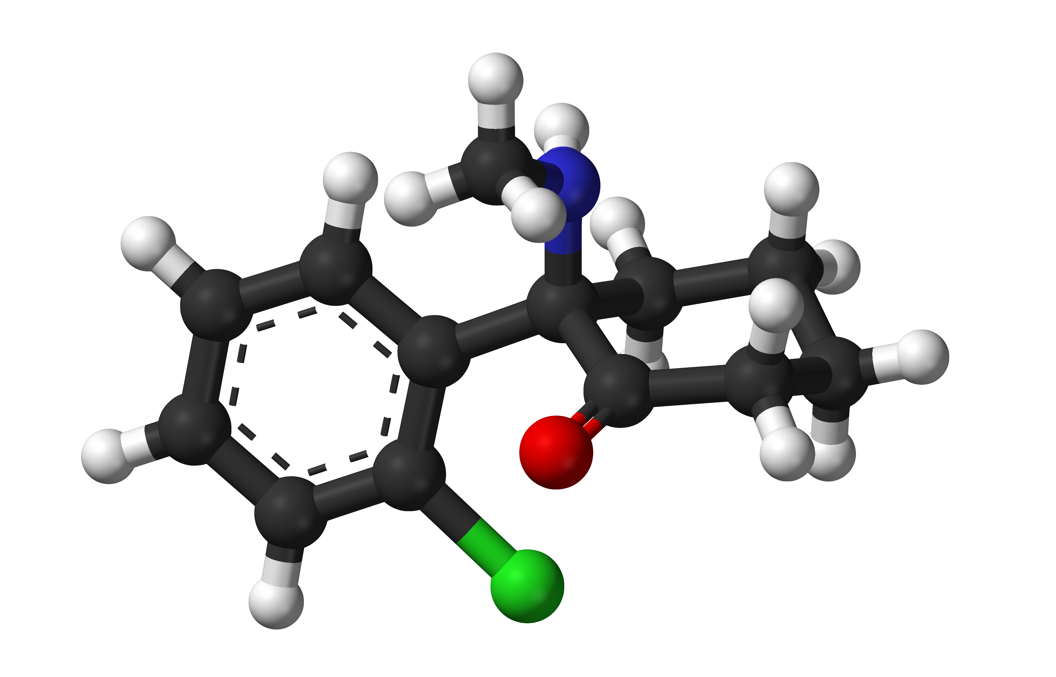 Ball-and-stick model of the (R)-enantiomer of the ketamine molecule, C13H16ClNO, as found in the crystal structure reported in B. Chankvetadze et al., J. Sep. Sci. 2002, 25, 1155-1166, Note: The direction of optical rotation in (R)-ketamine depends on its conformation, which differs between salts and the free base. This image is from the crystal structure of the free base, (R)-(+)-ketamine, which has an equatorial phenyl group and exhibits optical rotation in the positive direction. In contrast, the hydrochloride salt of (R)-ketamine exhibits optical rotation in the negative direction and is thus known as (R)-(−)-ketamine hydrochloride. In the hydrochloride salt, the ketamine molecule has a different conformation, with an axial phenyl group. See File:S-(+)-ketamine-from-xtal-3D-balls.png for the three-dimensional structure (of the mirror image). Colour code: Carbon, C: black Hydrogen, H: white Chlorine, Cl: green Nitrogen, N: blue Oxygen, O: red Model manipulated and image generated in Accelrys DS Visualizer.